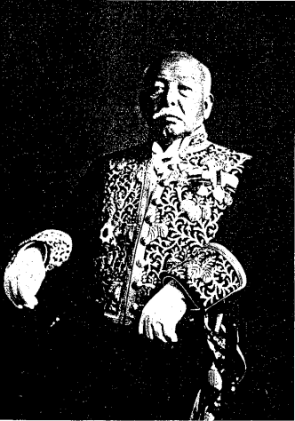 吉村 長策